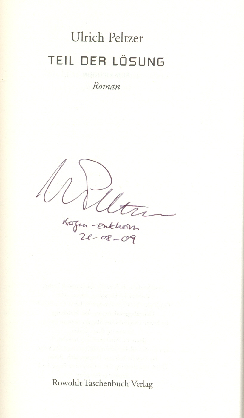 Autograph from Ulrich Peltzer